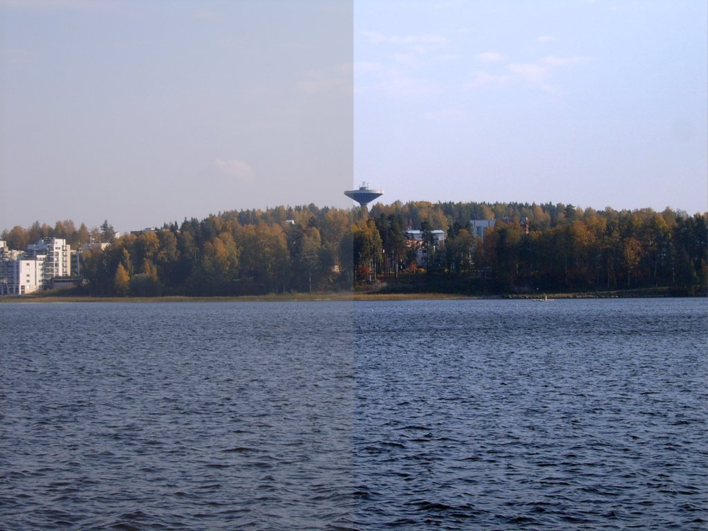 Example of photo editing: Contrast correction. Left side of the image is unmodified, right side has been touched with GIMP.